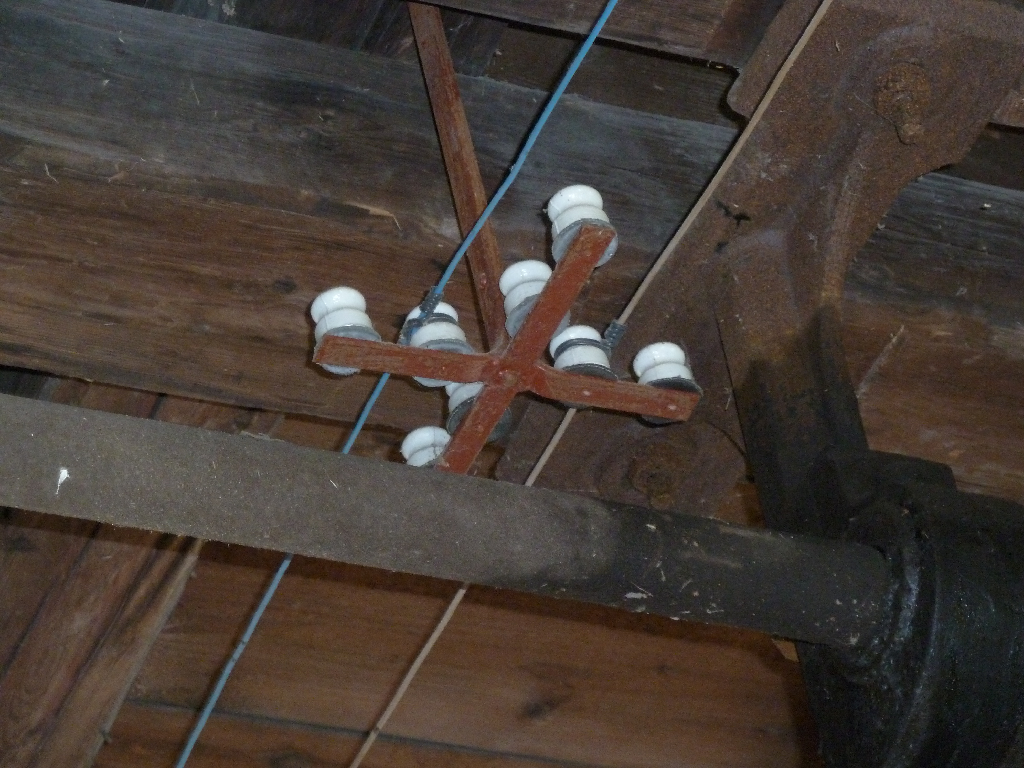 Electrical wiring for a lamp in a 110V network. The lamp is lighting a former stamp-mill now preserved as a workshop. The originally blank wires were insulated by sleeves of tar-soaked cotton and later on plastic-coated. They are kept apart from the wooden framework by doughnut insulators. The devices belong to ‘Tobias trip-hammer’ at Ohrdruf Industrial Hamlet, Thuringia.